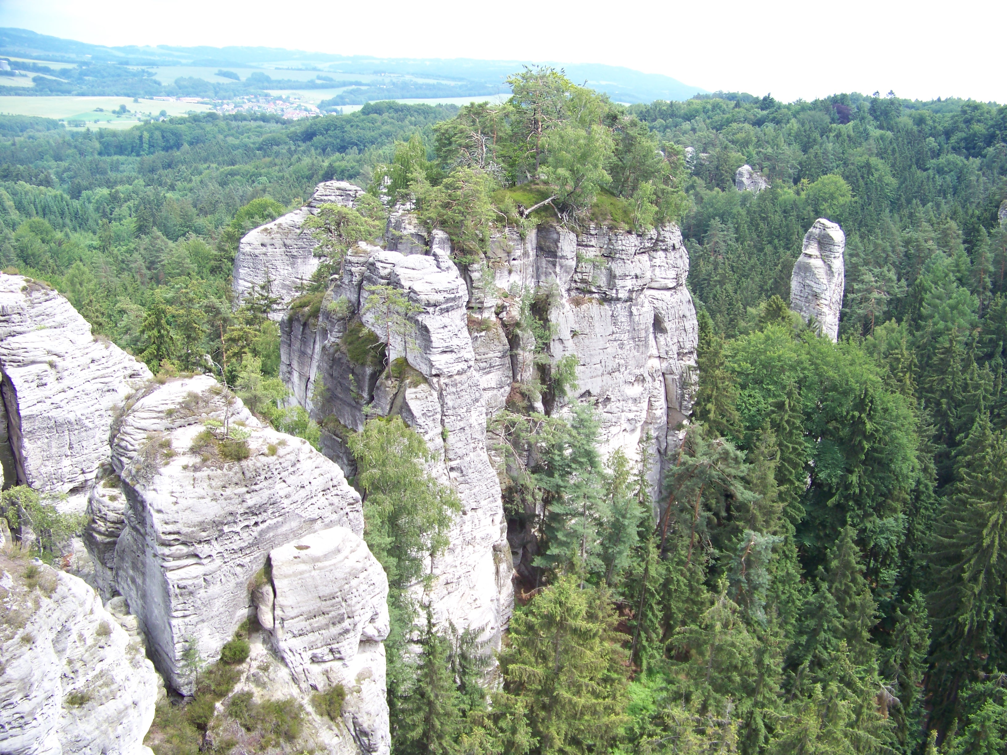 Rocks of Hrubá Skála, Liberec Region, the Czech Republic.